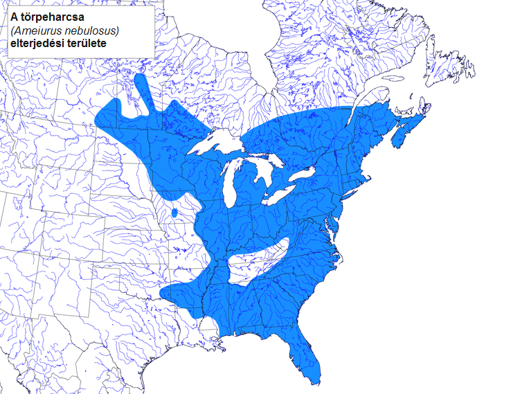 Distribution map of brown bullhead, (Ameiurus nebulosus)